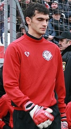 Vladimir Gabulov as a player of FC Amkar